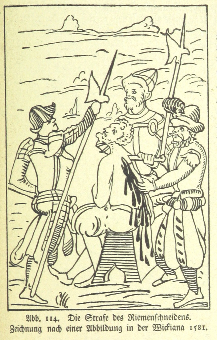 Image extracted from page 135 (Volumen 4) of Monographien zur deutschen Kulturgeschichte, herausgegeben von G. Steinhausen', by STEINHAUSEN, Georg. Original held and digitised by the British Library. Copied from Flickr. Note: The colours, contrast and appearance of these illustrations are unlikely to be true to life. They are derived from scanned images that have been enhanced for machine interpretation and have been altered from their originals.